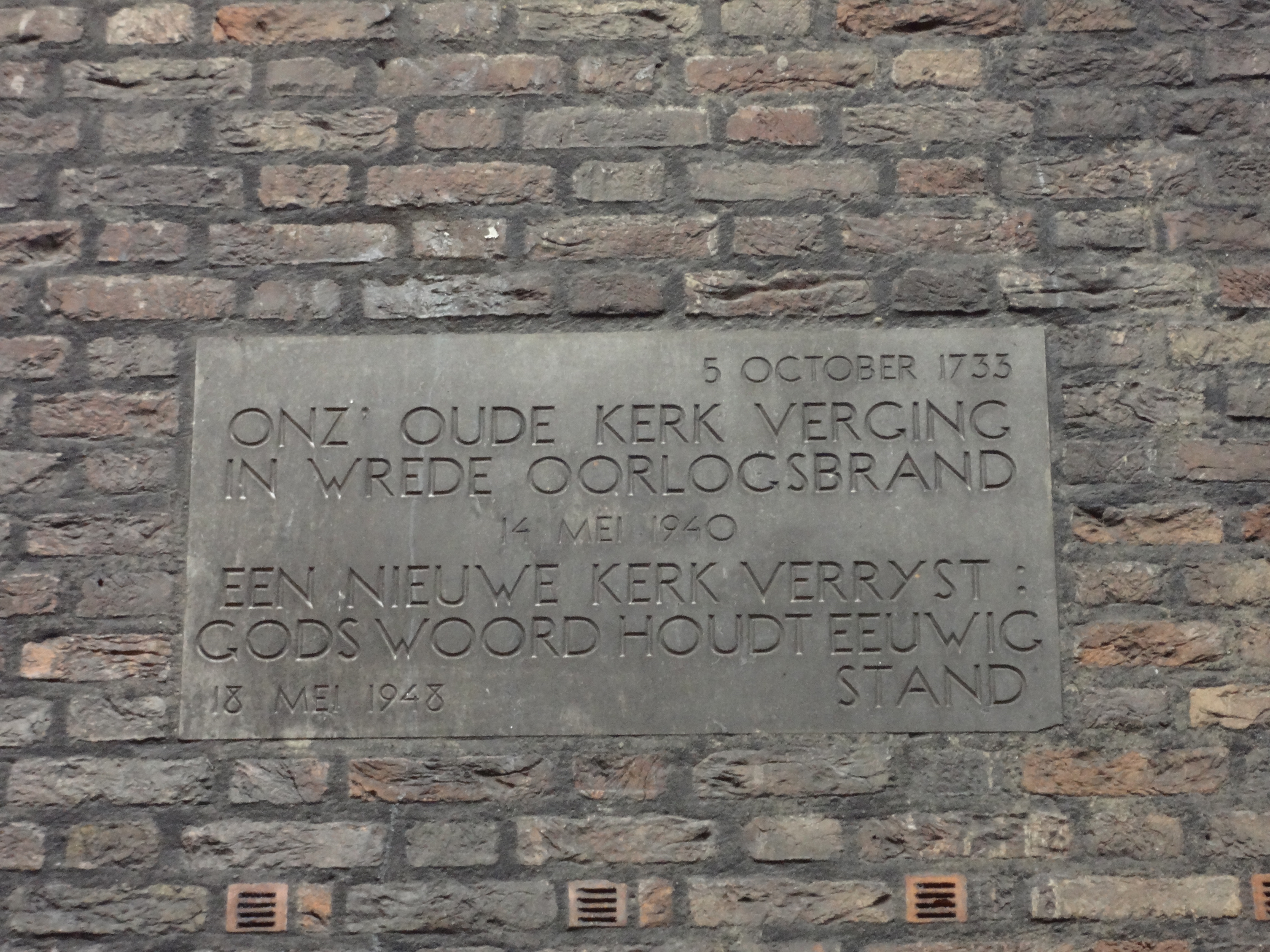 Andreaskerk - Oude Noorden - Rotterdam - Commemorative inscription